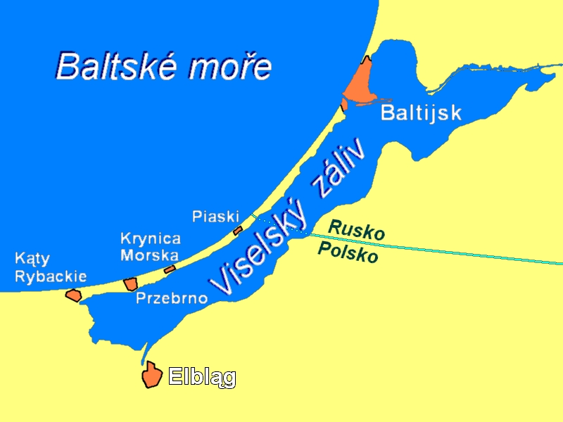 Vistula spit map